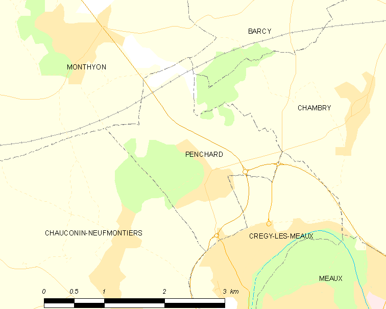 Map of French municipality Penchard